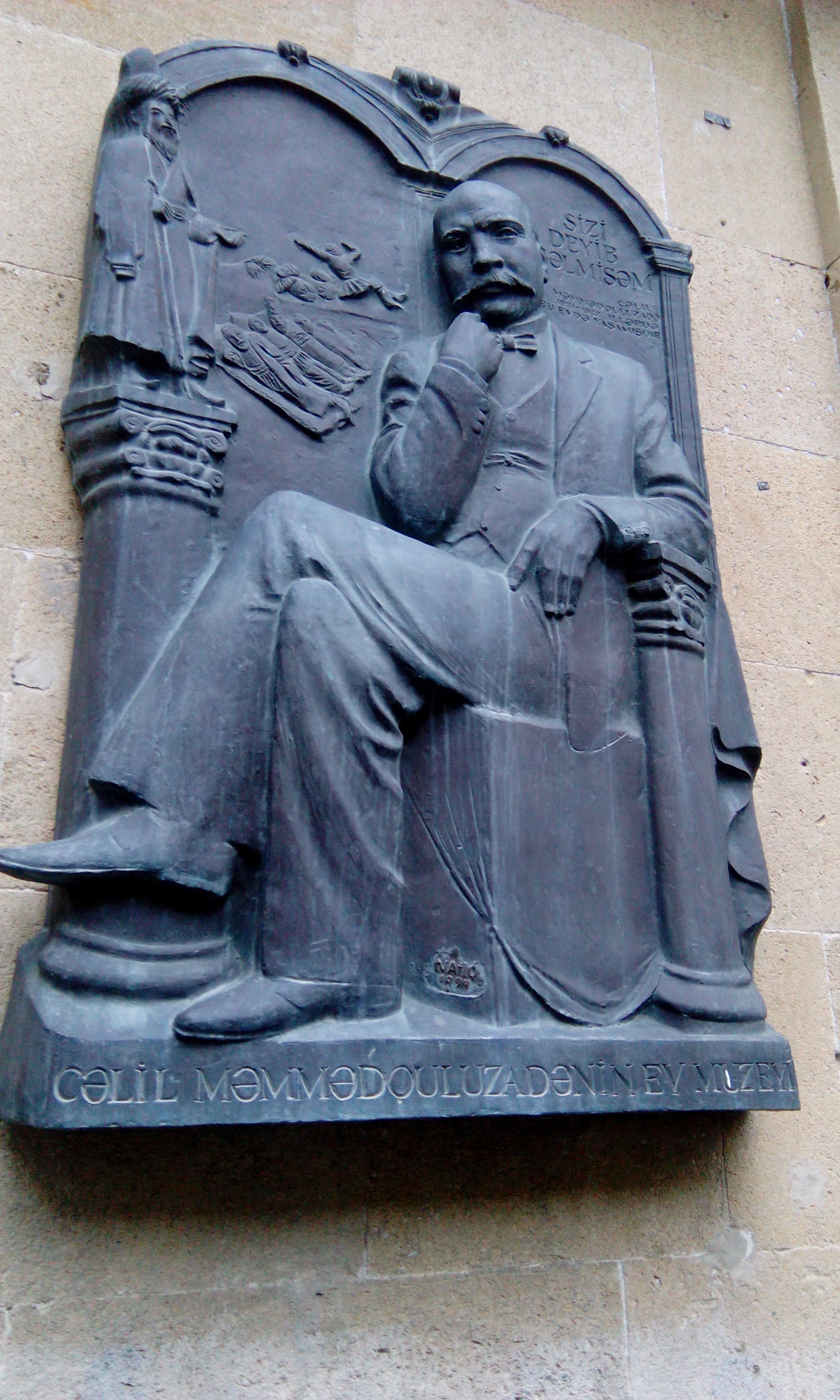 Plaque on building where Azerbaijani writer Jalil Mammadguluzadeh lived in Baku, Azerbaijan.